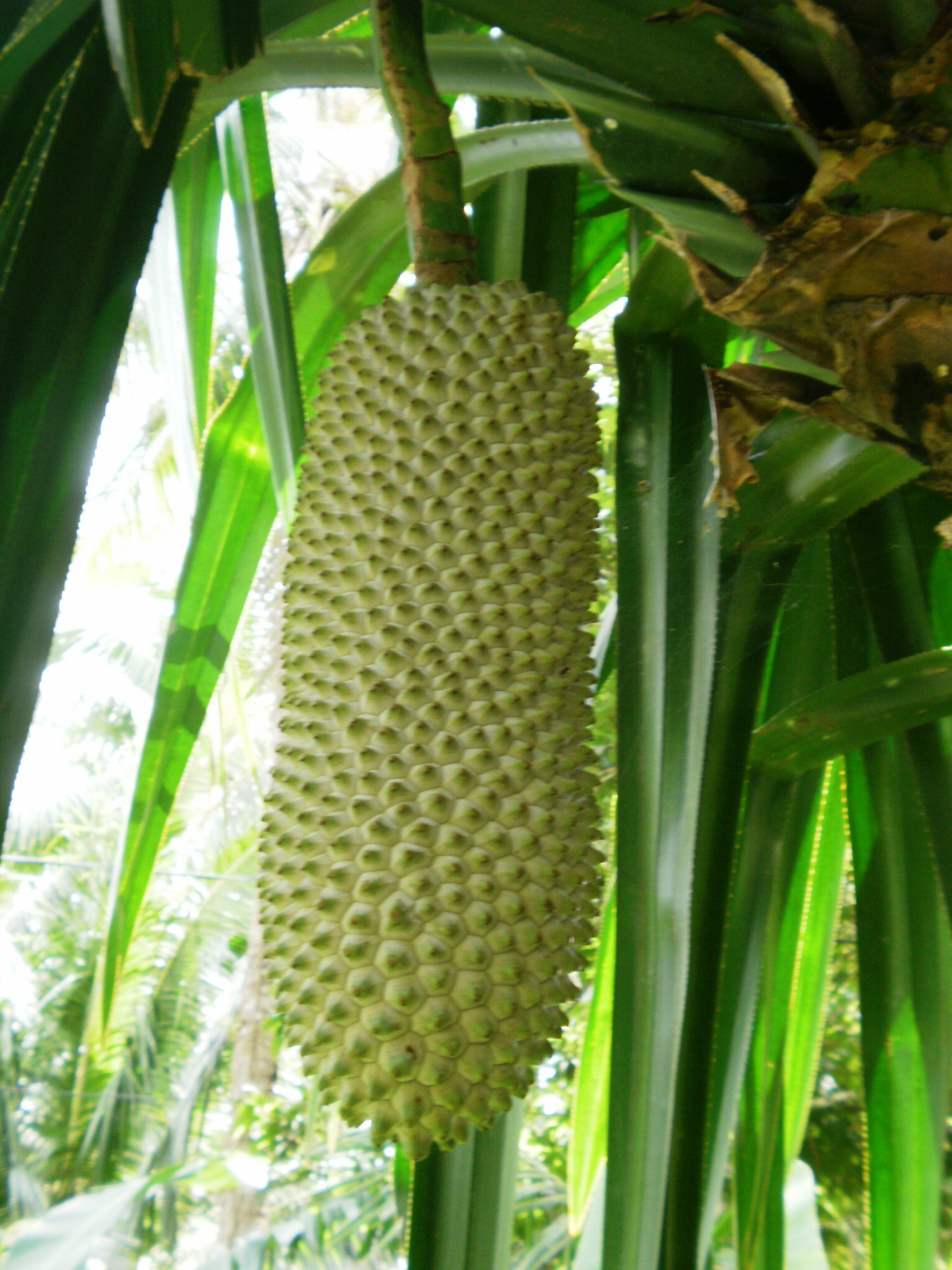 Unusual fruit of Pandanus simplex locally known as karagumoy. The leaves are used as materials for weaving native hats, bags and mats in the Philippines especially in the Bicol Peninsula as documented by the Philippine Craftsman (1913). It is the main material for the Bulusan kalo (hat) and the common bay-ong. (Bulusan, Sorsogon, Philippines)